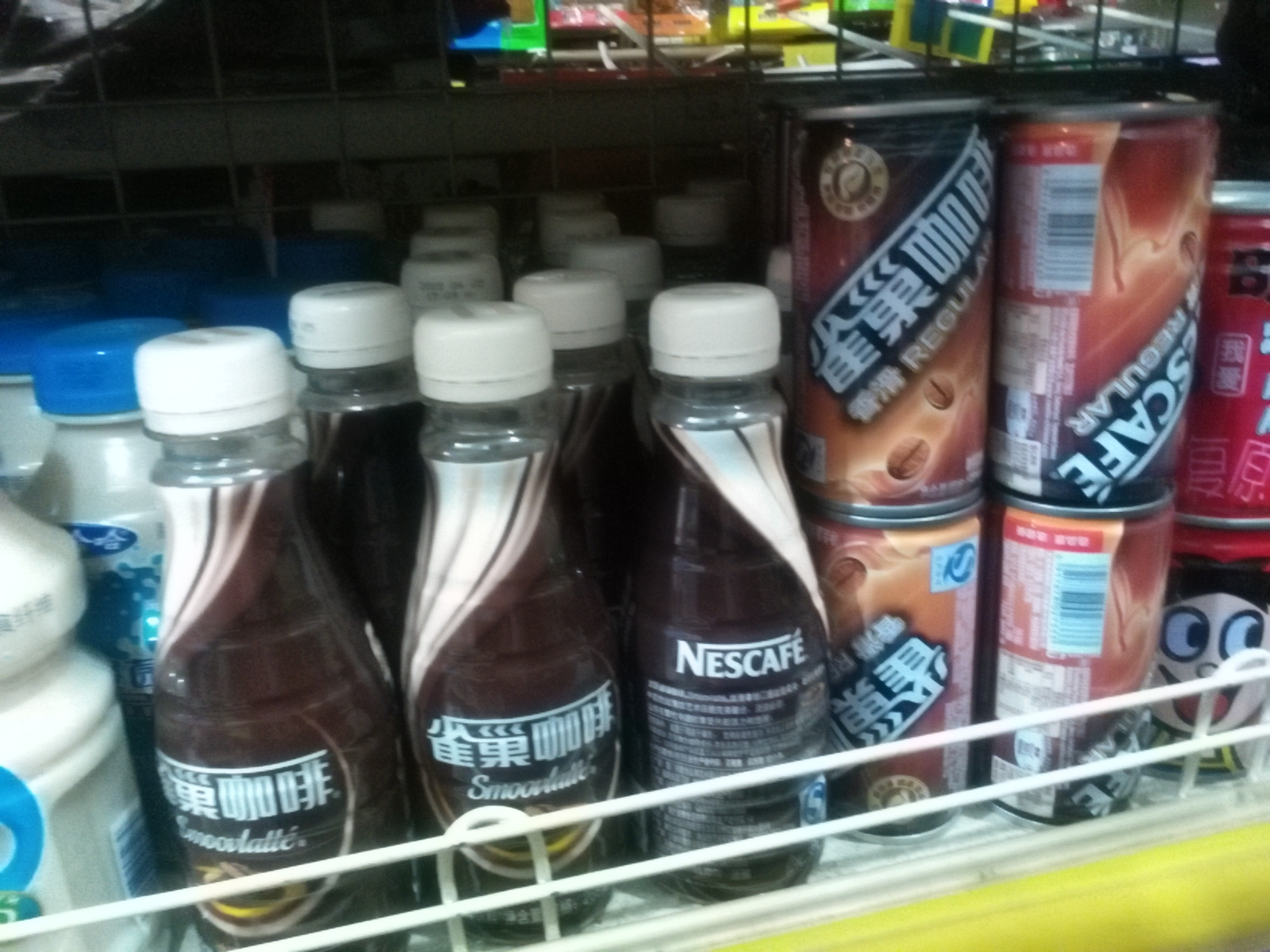 Nescafe bottles and cans